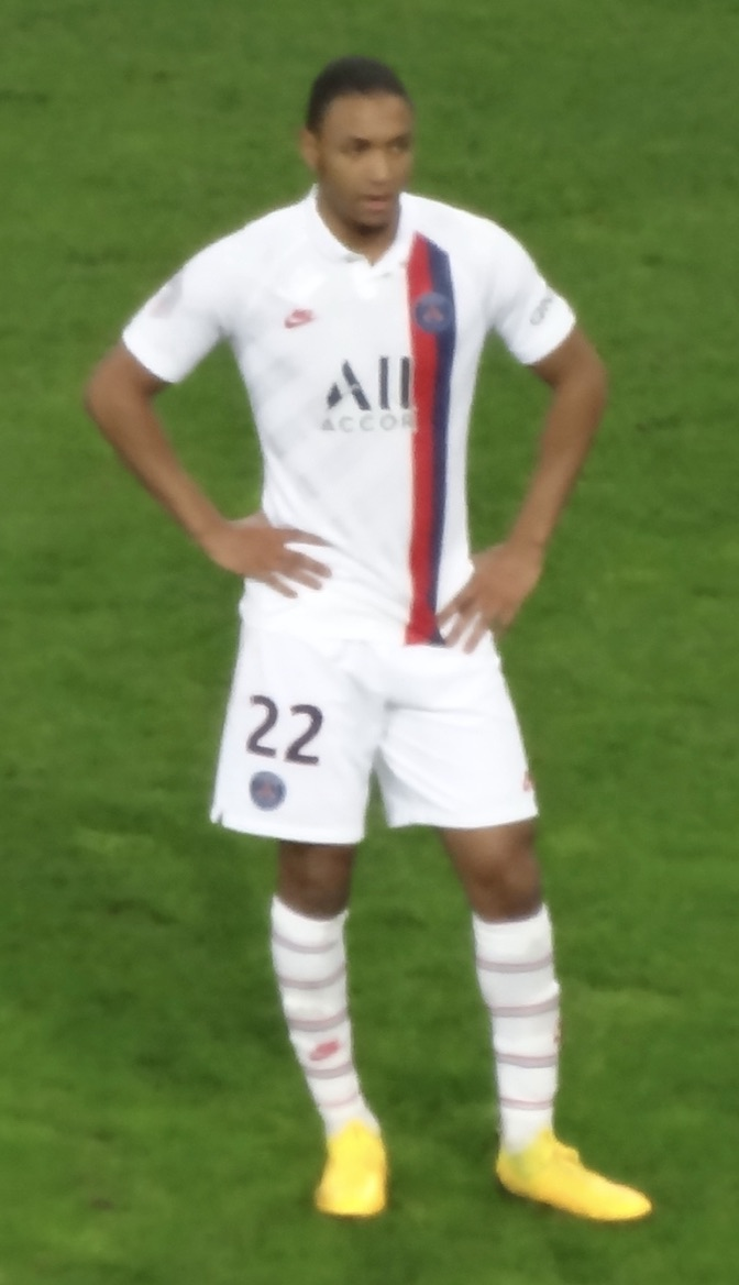 Abdou Diallo (PSG)